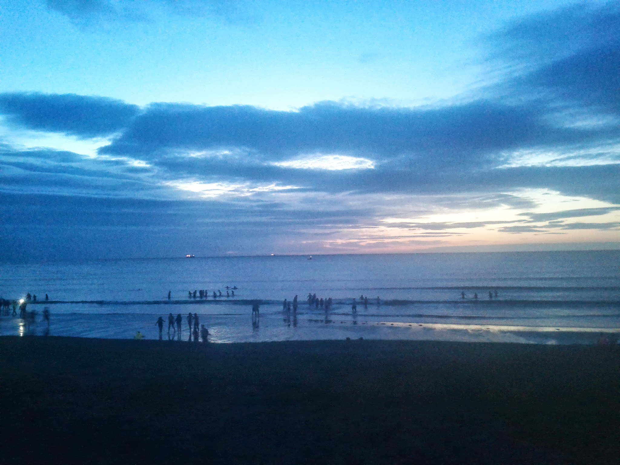 Student's of the university of St Andrews entering the North Sea as part of the annual May Dip tradition